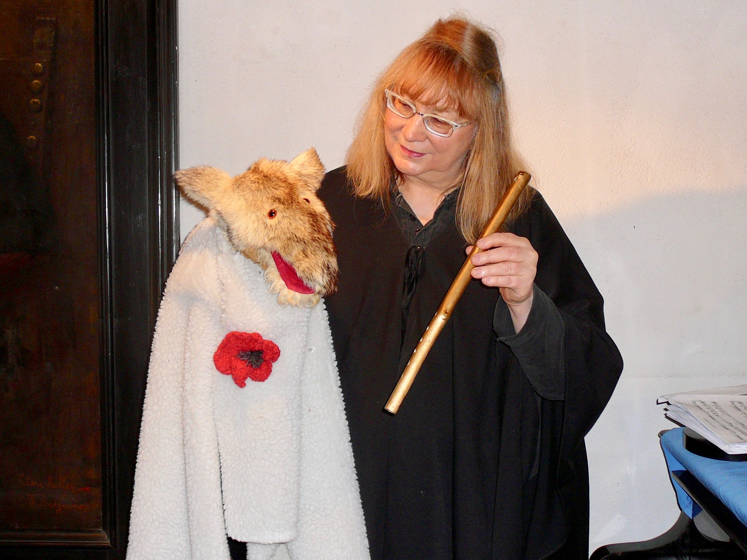 Opera house of animals, by Clara Luisa Demar, in the Bernhard Theatre Zuerich, 2010